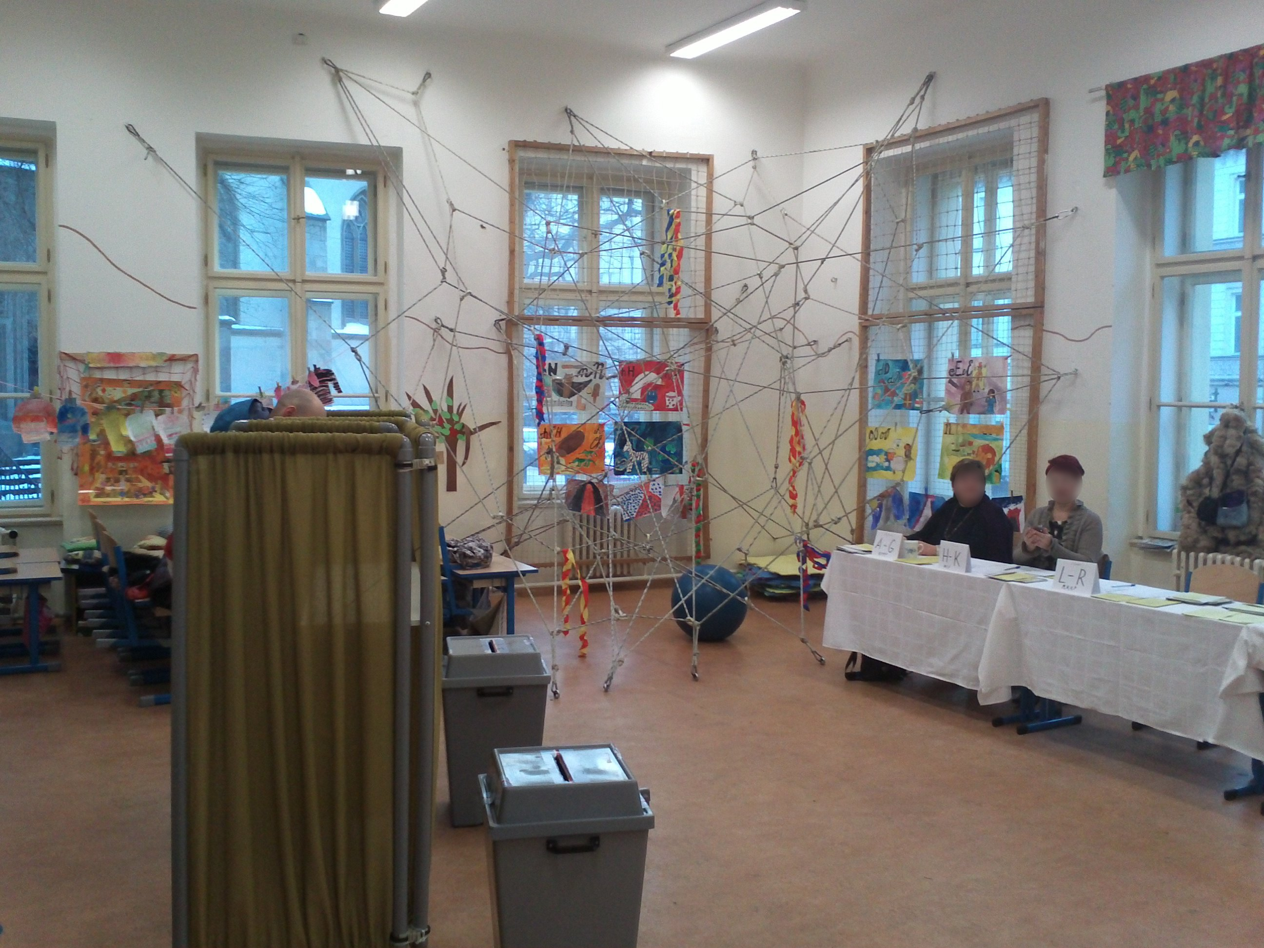 Second round of the presidential election 2013 at Štěpánská Elementary School, Prague, Czech Republic.